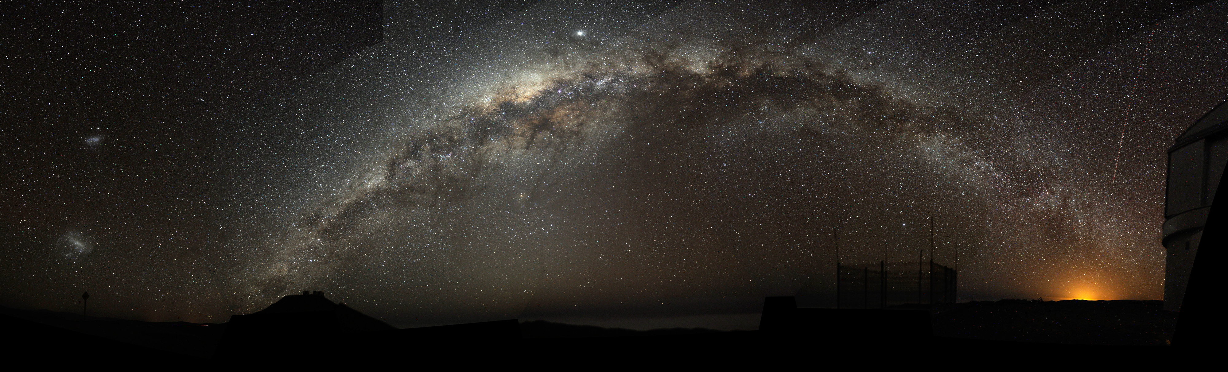 The Milky Way arch emerging from the Cerro Paranal, Chile, on the left, and sinking into the Antofagasta's night lights. The bright object in the center, above the Milky Way is Jupiter, somehow elongated due to the panoramic projection. The Magellanic Clouds are visible on the left side, and a plane has left a visible trace on the right, along the Vista enclosure.